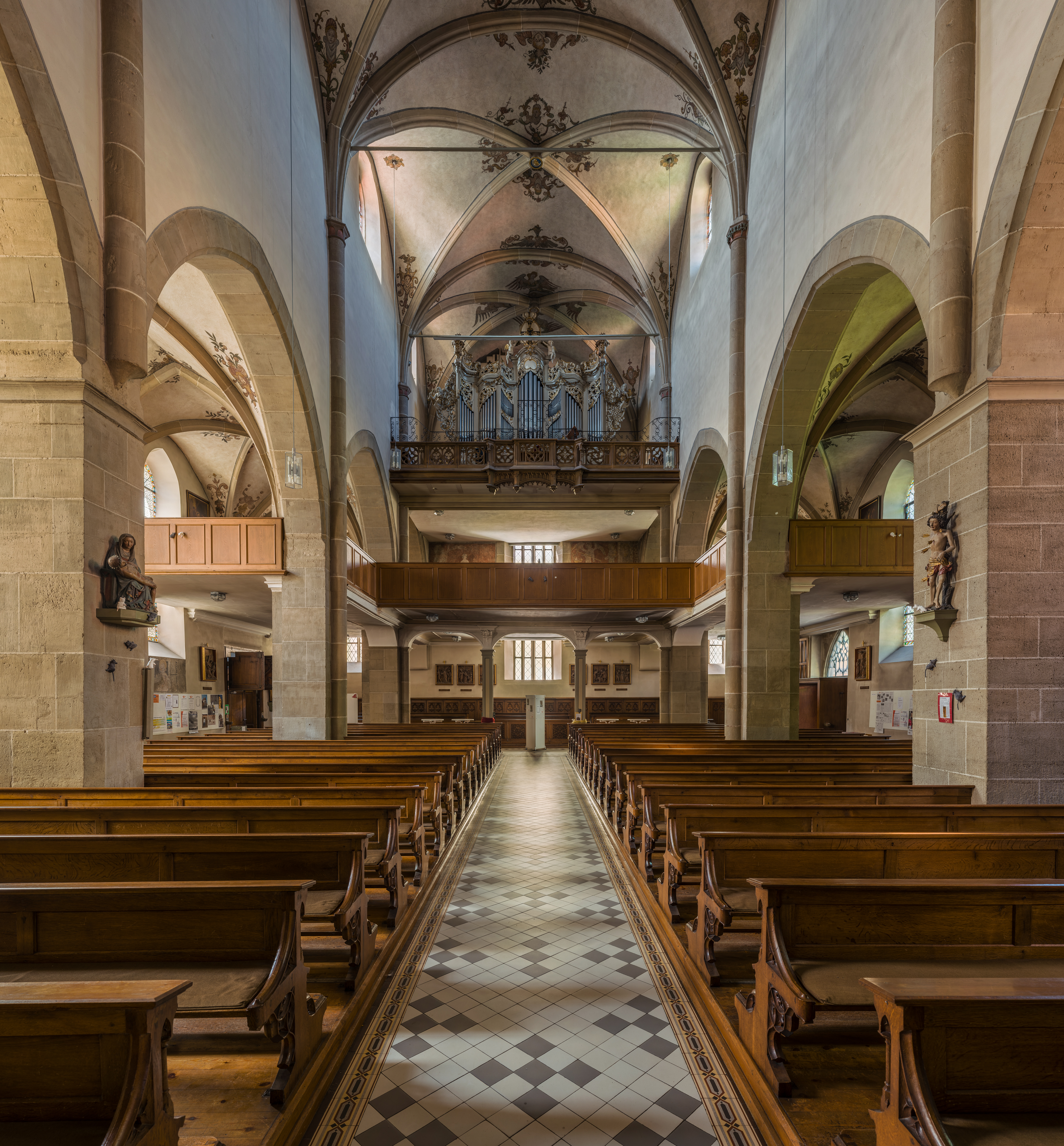 An interior view of Münster St. Johannes, Bad Mergentheim, looking towards the organ